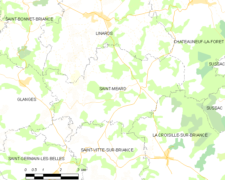 Map of French municipality Saint-Méard